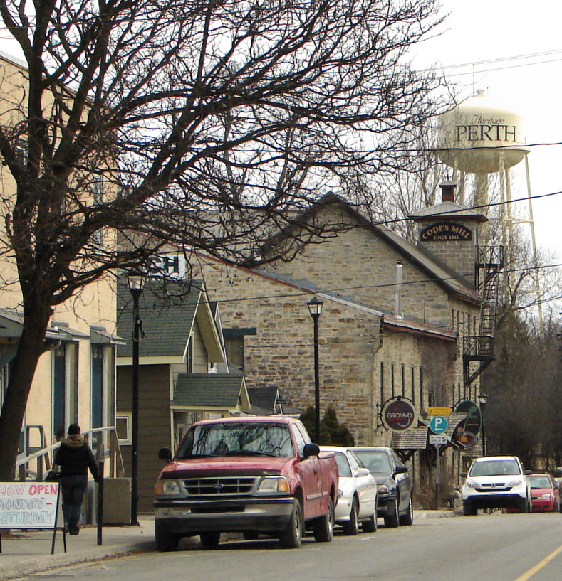 Perth, Ontario, Canada